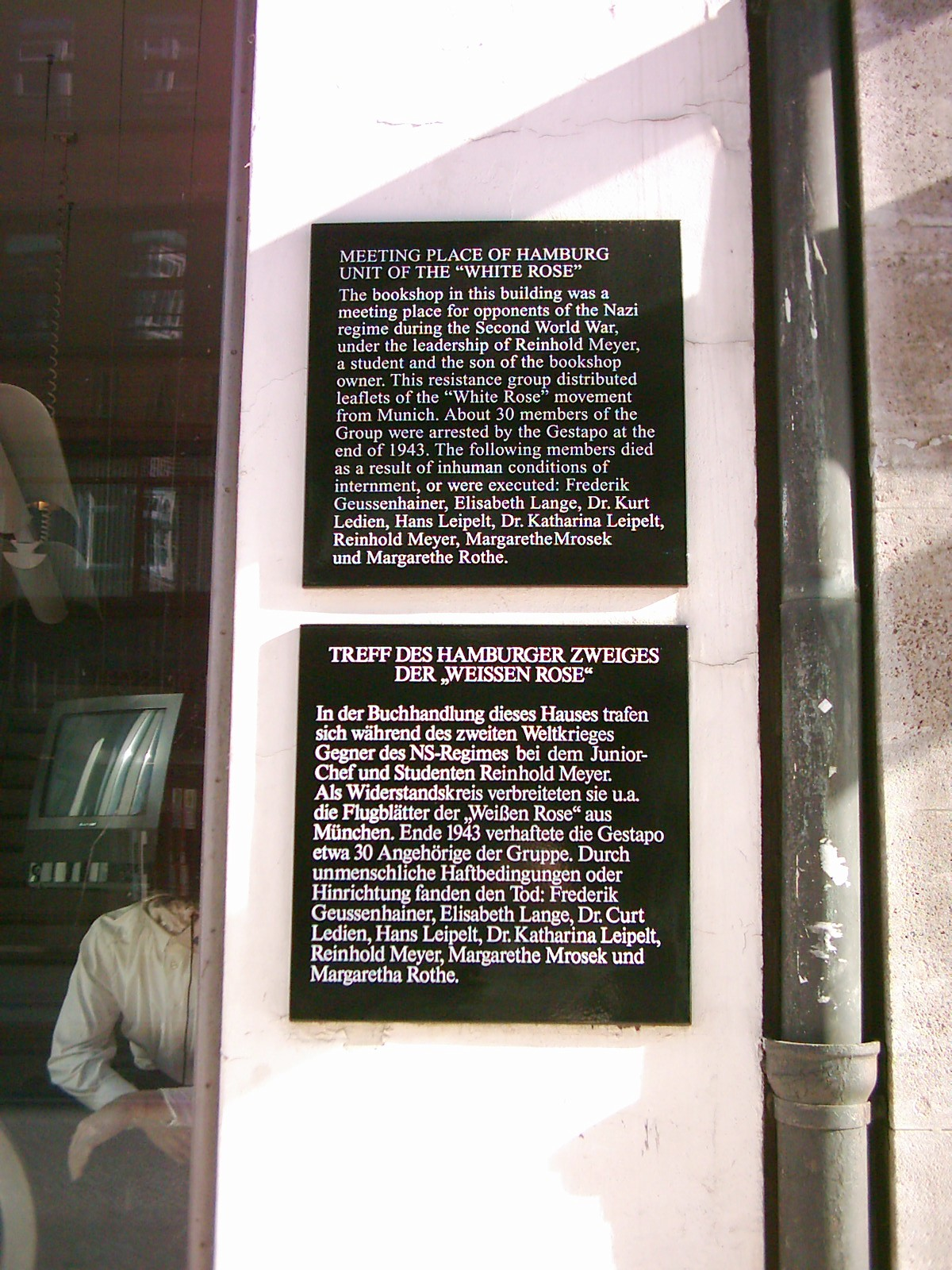 Memorial plaque in english and german at former bookshop in Hamburg, Germany. During WW II meeting point of members of the antifascist resistance group "White Rose".